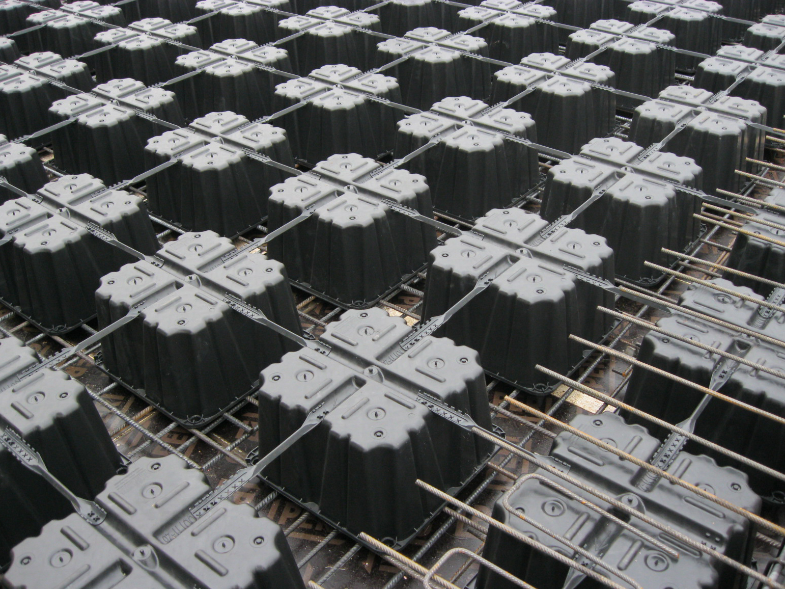 Disposable formwork for two-way voided slabs in reinforced concrete cast on site.